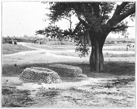 The graves of Captain Paul Voulet and his adjutant Lt. Julien Chanoine, of the French Voulet-Chanoine Mission. Photo taken 1906, Maijirgui Niger. L. Roserot de Melin In het gebied van het Tsadmeer met de expeditie Tilho De Aarde en haar volken, 1910 (Holland) Nedersaksies: Het dorp Maijirgui en de graven van Voulet en Chanoine. L. Roserot de Melin In het gebied van het Tsadmeer met de expeditie Tilho De Aarde en haar volken, 1910 (Holland)